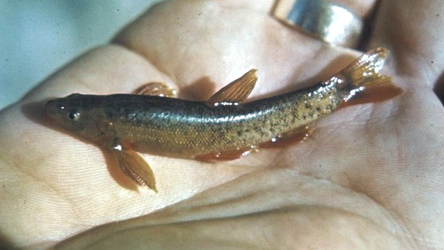 A loach minnow (Rhinichthys cobitis), small fresh-water fish